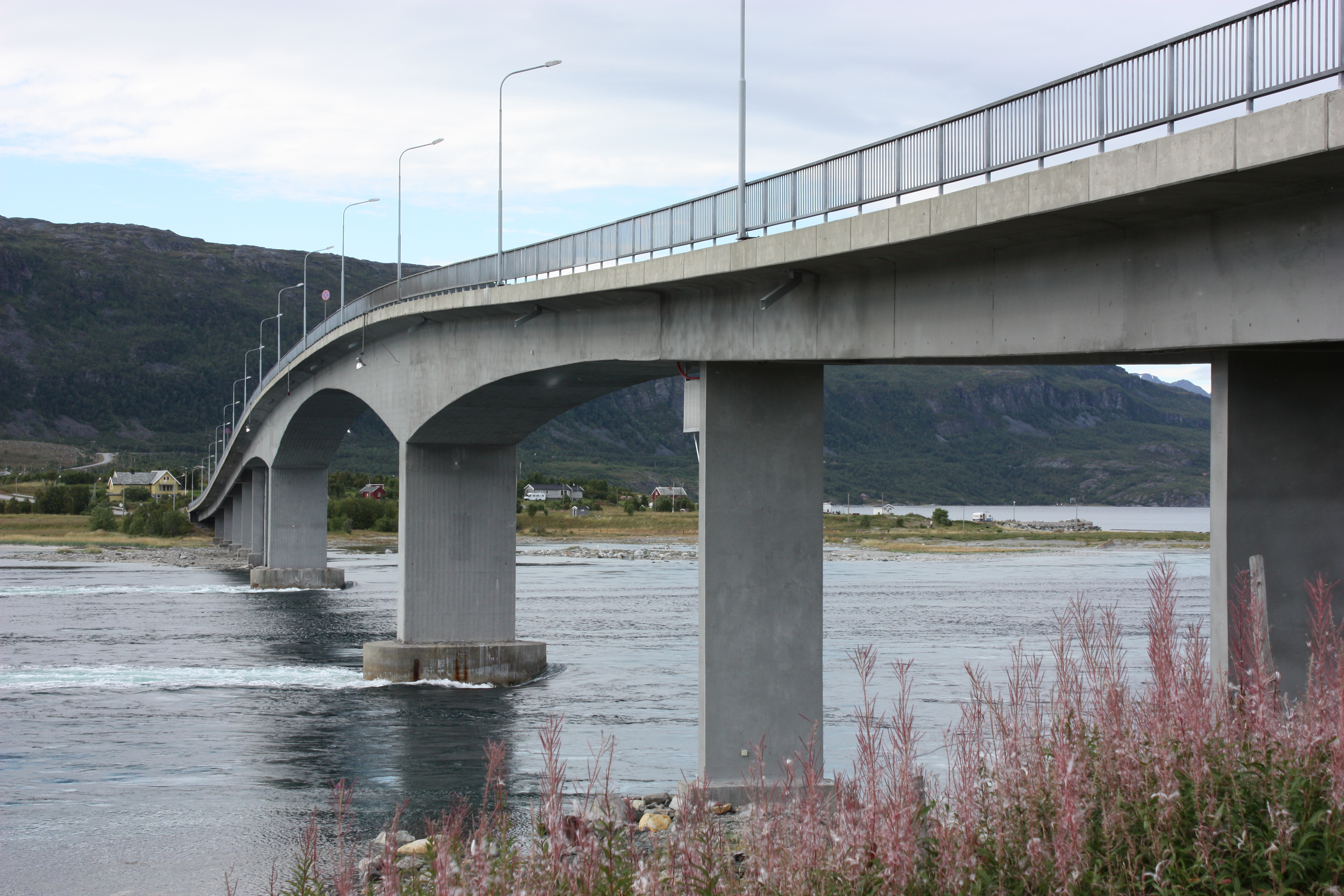 The Sørstraumen Bridge as seen from the southeast.